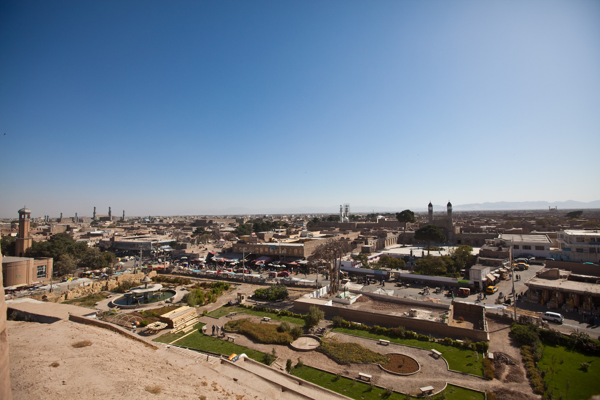 View from the Herat Citadel, in Afghanistan.